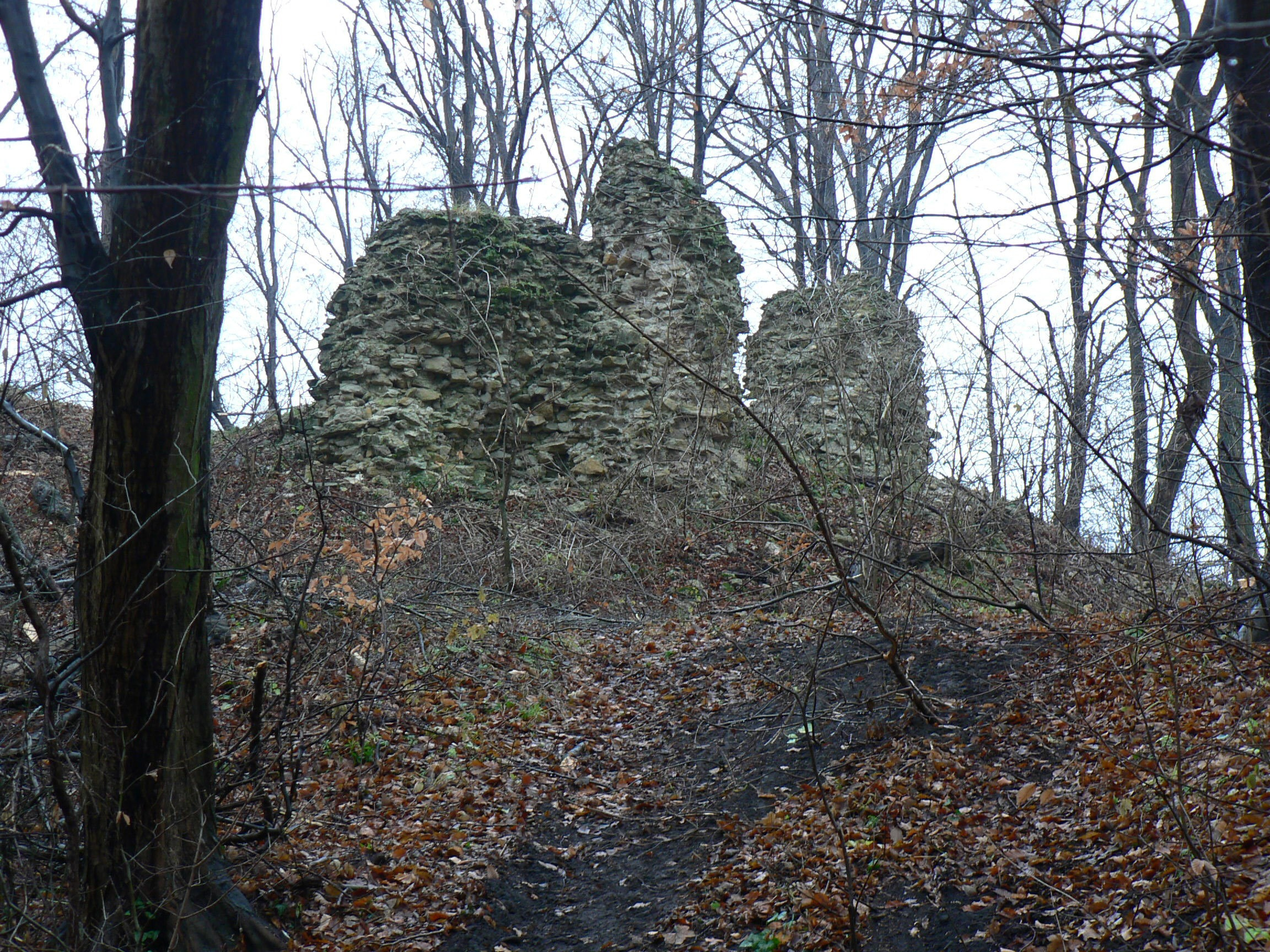 Gerencsérvár 2008 1